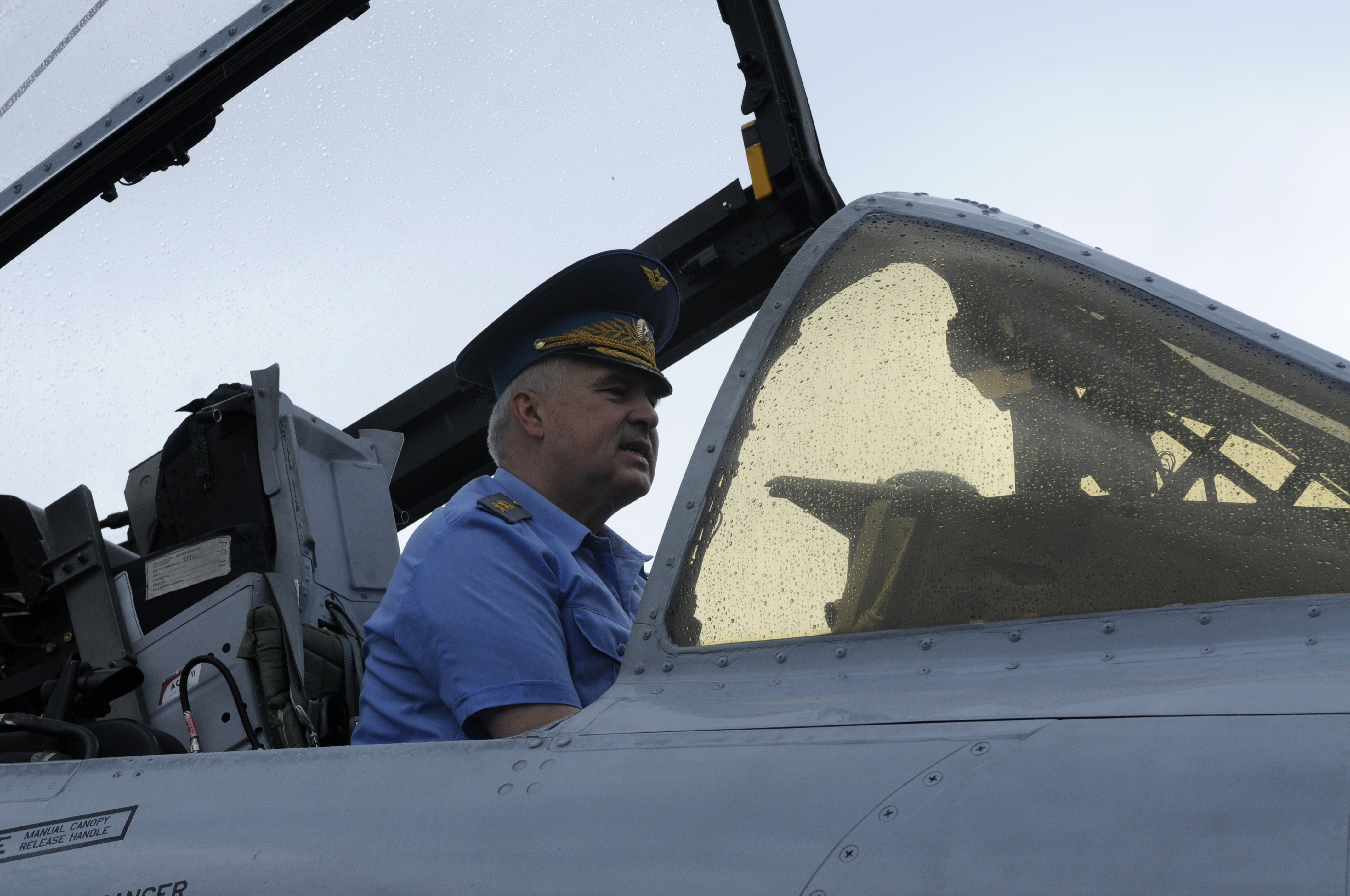 Gen.-Col. Alexander Nikolayevich Zelin, Russian air force commander-in-chief, sits in the cockpit of an 81st Fighter Squadron A-10 Thunderbolt II from Spangdahlem Air Base, Germany, during his visit to the U.S. chorale at the Moscow International Aviation and Space Salon, or MAKS 2011, here Aug. 20.